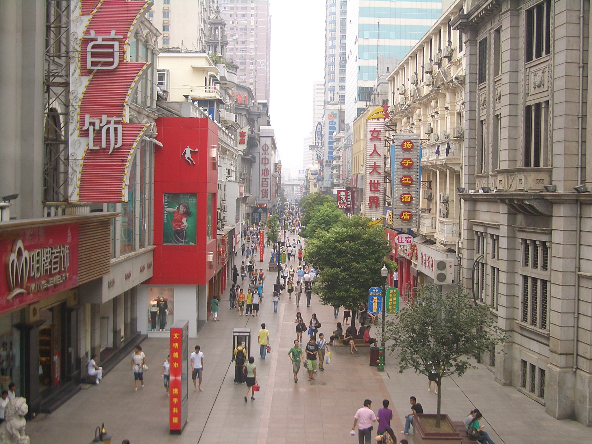 Jianghan Lu, a pedestrian shopping street in central Hankou (Wuhan)